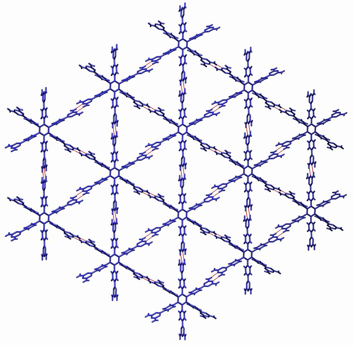 This is a picture generated from a crystal structure data reported by Kenneth E. Maly, Eric Gagnon, Thierry Maris, and James D. Wuest in the Journal of the American Chemical Society 2007, volume 129, pages 4306–4322 ( entitled “Engineering Hydrogen-Bonded Molecular Crystals Built from Derivatives of Hexaphenylbenzene and Related Compounds”. It shows a portion of a crystal structure in which the molecules have been engineered to assemble into sheets by hydrogen-bonding with six of their neighbors. Hydrogen bonds are red.